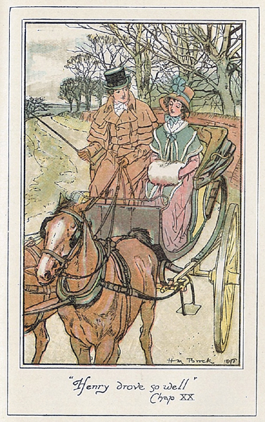 Tinted Line Drawing by H.M. Brock for Northanger Abbey, ch 22 (II, 7) Henry drove so well